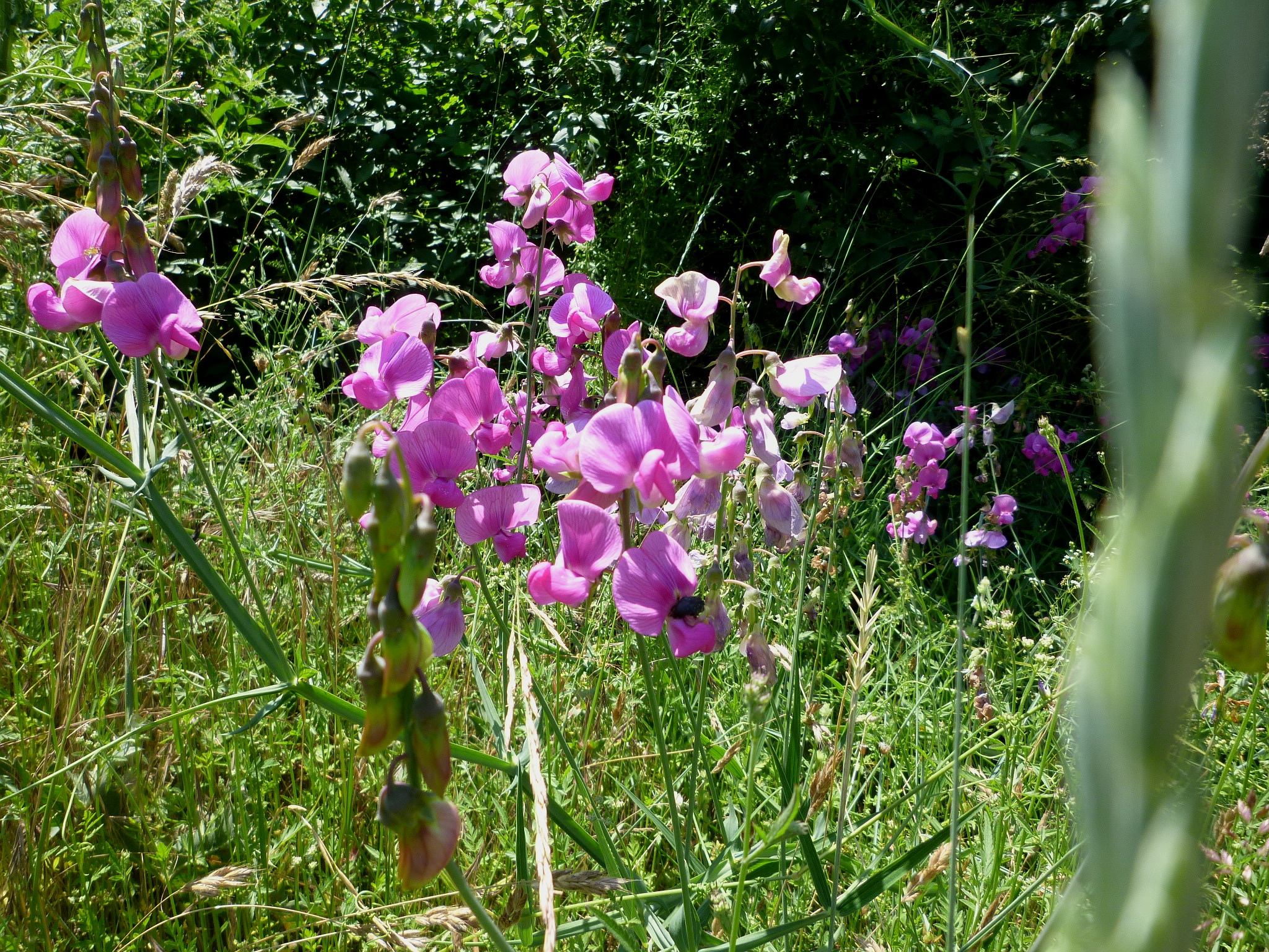 Lathyrus latifolius. In Torà (Segarra- Catalunya). On 560 m. altitude